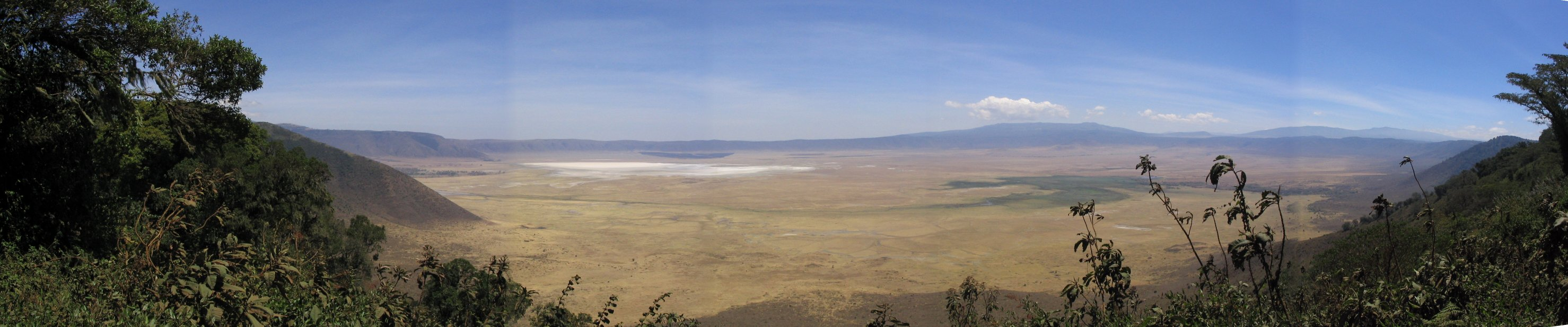 The Ngorongoro crater in Tansania, photographed in September 2004.